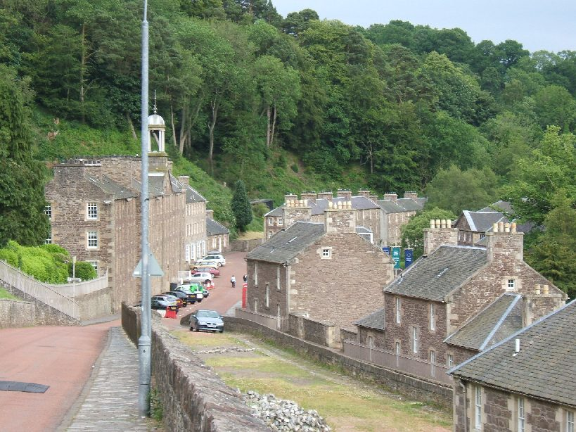 Looking down from the New Lanark Road to the village square of New Lanark in Scotland.